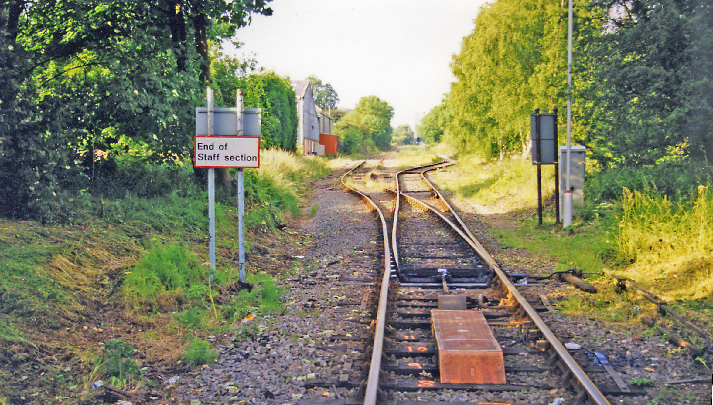 Site of Kilburn station, 1998. View NE, towards Ripley and Butterley: ex-Midland (Derby) - Little Eaton Junction - Ripley - Butterley branch. The line remained open until 2011 as far as Denby, to serve a coal-washery, having lost its passenger service 1/6/30 and normal goods traffic from 1/4/63.